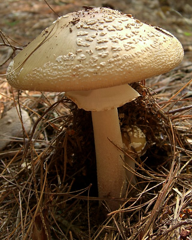 Scientific Name: Amanita rubescens Common Name: Blusher Amanita Certainty: positive (notes) Location: Central Appalachians; George Washington NF; Shenandoah Mt